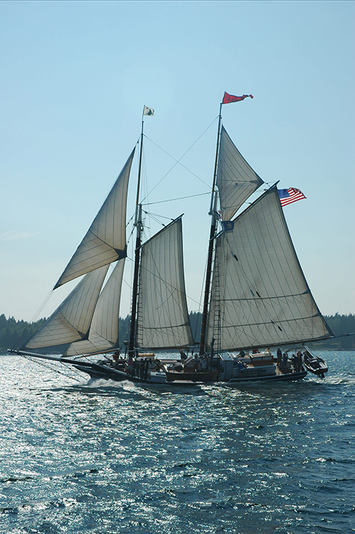 Schooner Lewis R French